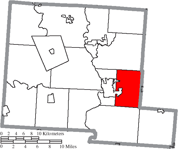 Map of the municipal and township boundaries of Pickaway County, Ohio, United States, as of the 2000 census, with the location of Washington Township highlighted. Township borders are shown only in unincorporated areas in order to differentiate incorporated and unincorporated areas more clearly.